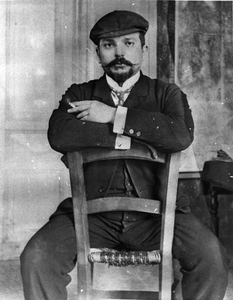 Georgios Kakoulidis